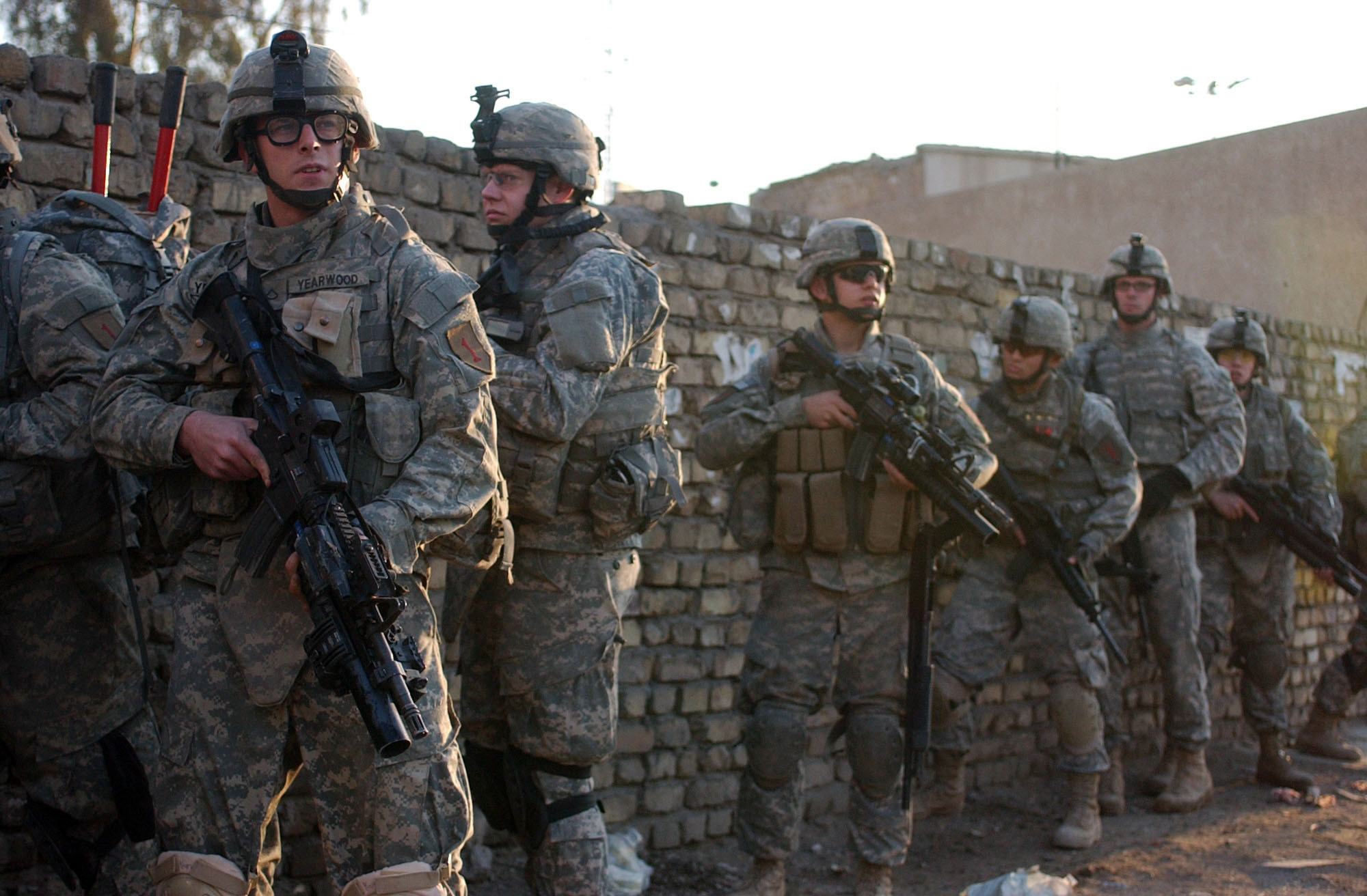 Soldiers from C Company, 1st Battalion, 26th Infantry Regiment, conduct a Cordon and Search operation in Al Adhamiya, Baghdad, Iraq, Feb. 21, 2007. (Photograph by Sergeant Jeffrey Alexander, U.S. Army)